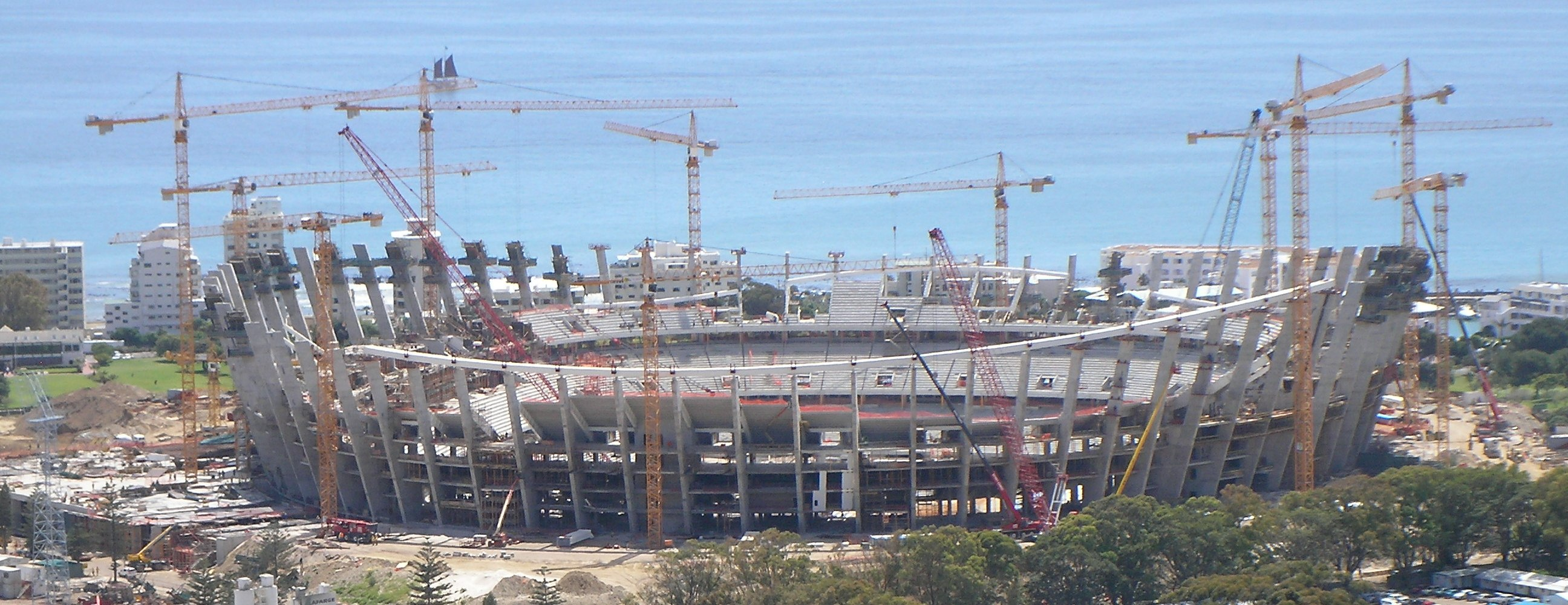 View from Signal Hill (noon gun location) of Cape Town Stadium while under construction